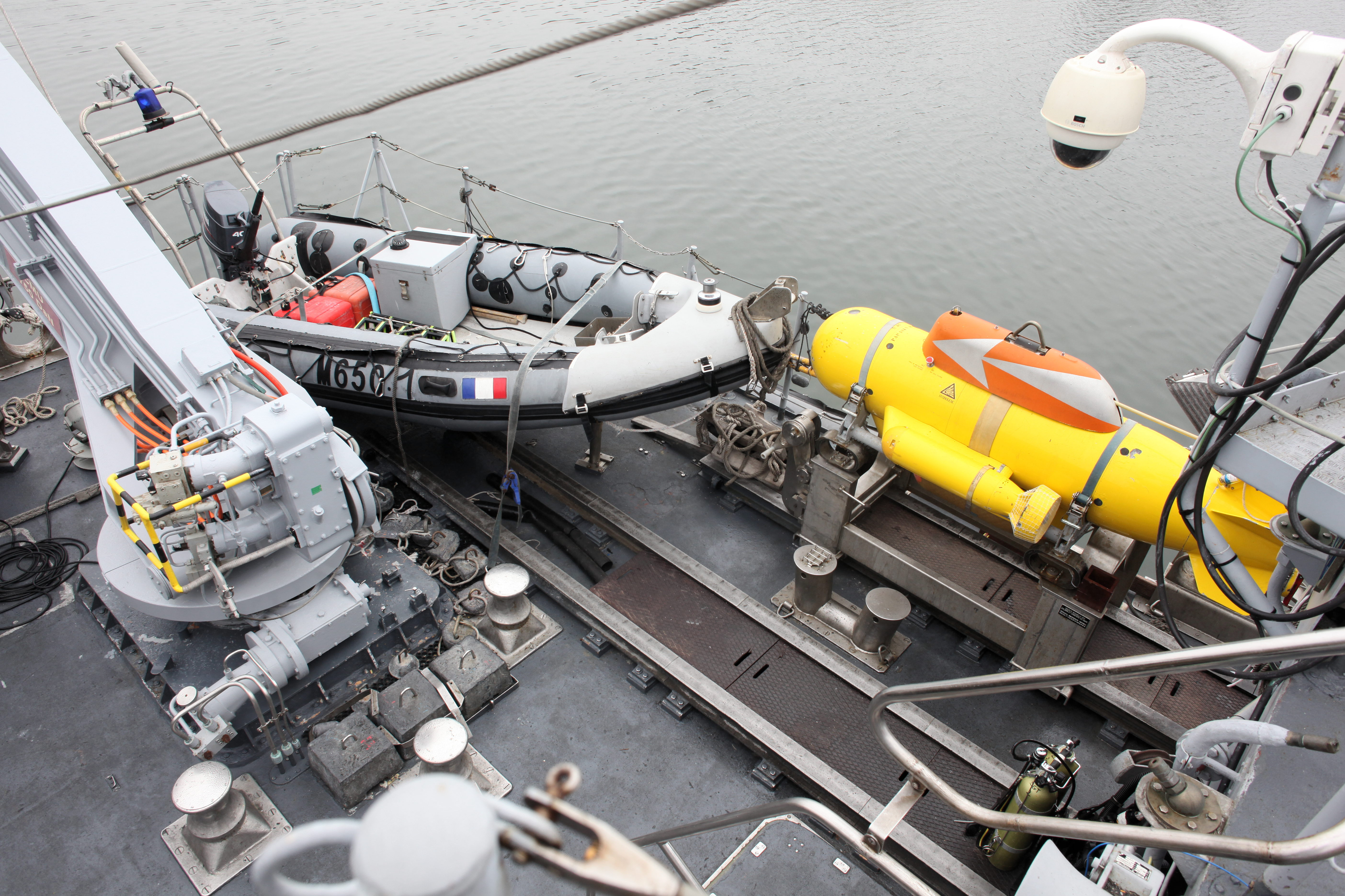 Aft bridge and ship's boats of the Sagittaire